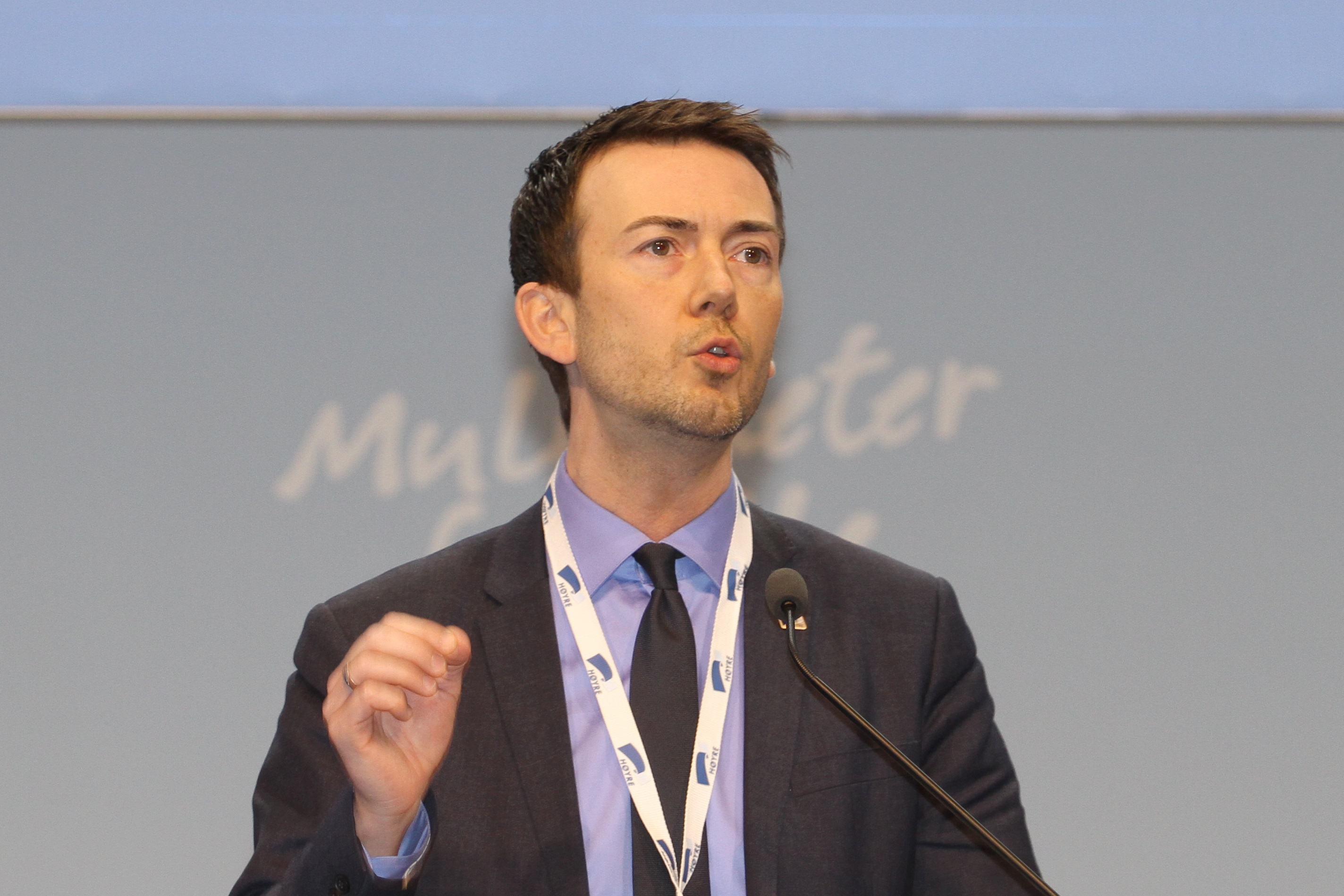 Kent Gudmundsen